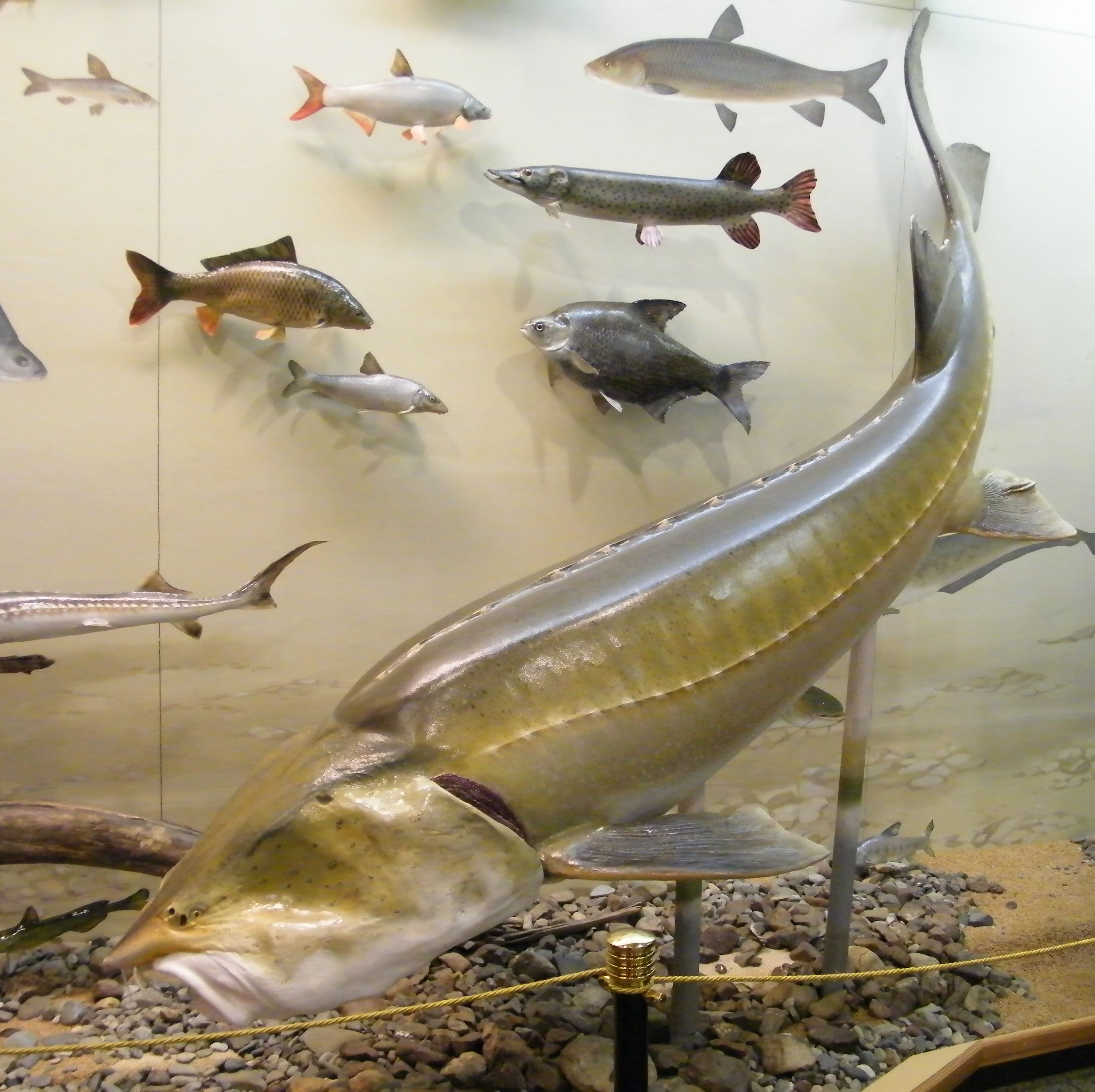 Huso dauricus